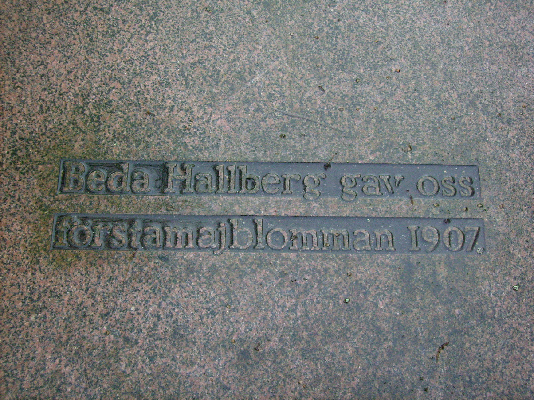 Beda Hallbergs grave in Gothenburg. Inscription in transaltion: "Beda Hallberg gave us the May Flower in 1907."